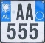 Albania motorcycle plate